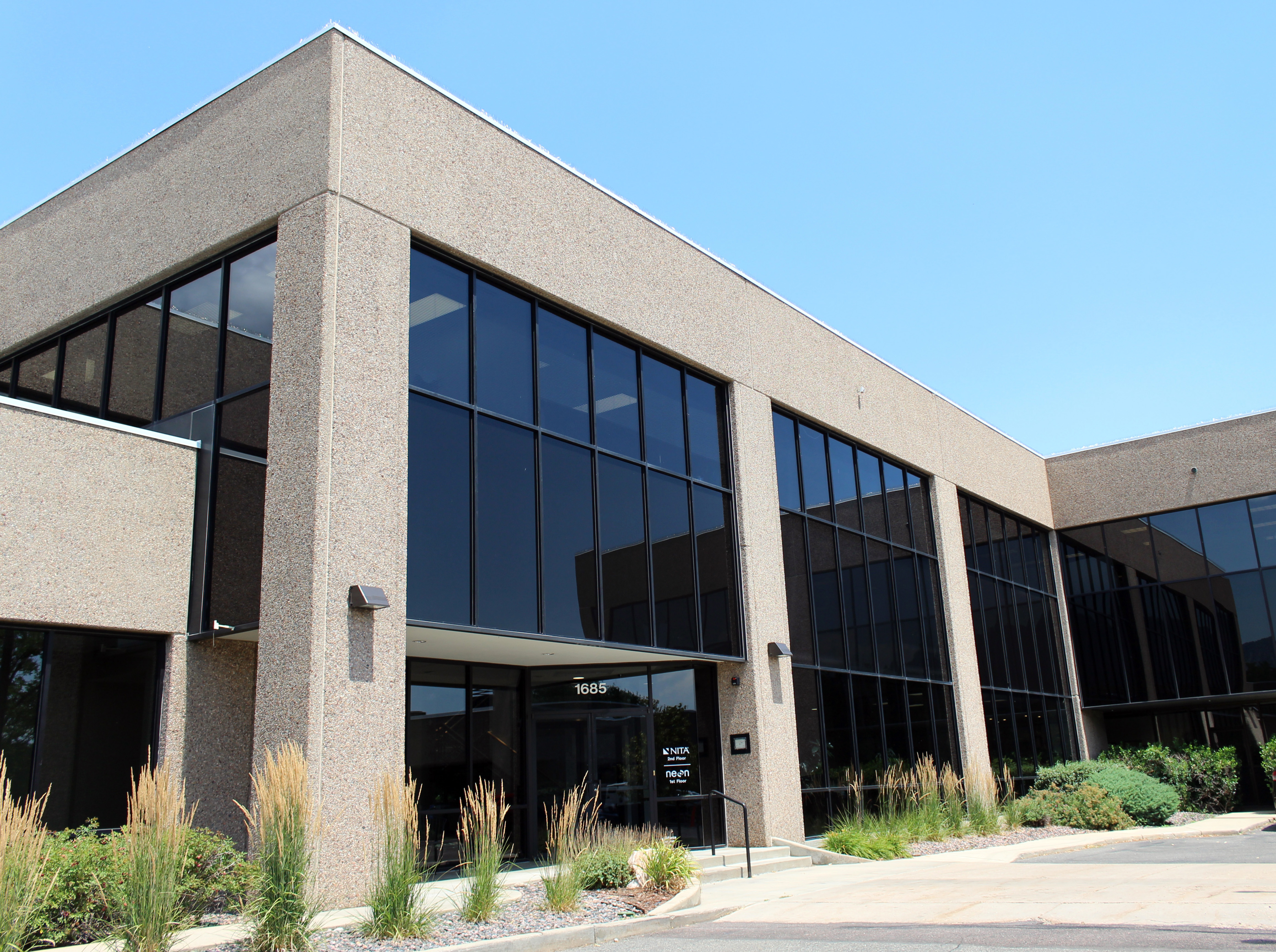 An office building at 1685 38th Street in Boulder, Colorado. At the time the photograph was taken, the office building depicted was the home to the National Institute for Trial Advocacy and the National Ecological Observatory Network. This building was formerly home to Exabyte. Photographed by user Coolcaesar on July 25, 2016.